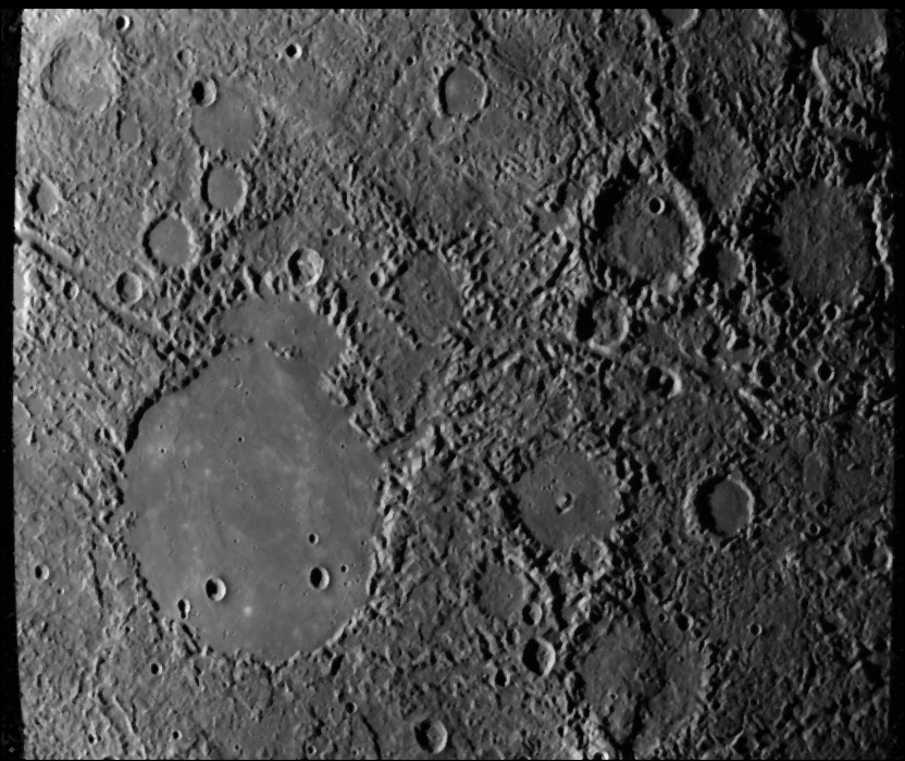 Hilly and lineated terrain and a patch of smooth plains in a large degraded crater (lower left portion of the image). Linear scalloped valleys extend mostly NW from the center (e.g., Arecibo Vallis); some trend NNE. Small craters are rare in the terrain; most landforms are positive. Area centered at 28 degrees S, 22 degrees W measures 450 km across. Mariner 10 frame 27370 taken during the spacecraft's first encounter with Mercury.The large crater at left is Petrarch.